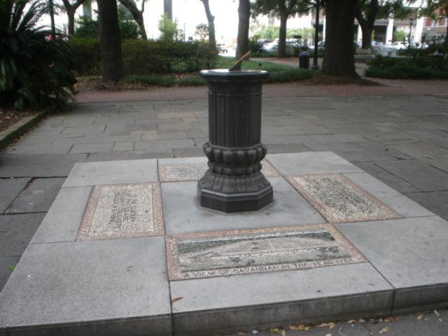 The sundial in Johnson Square